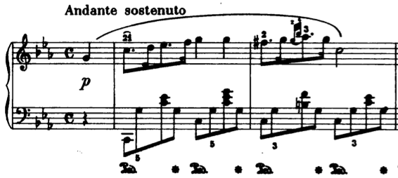 Theme of Chopin's Nocturne no. 21